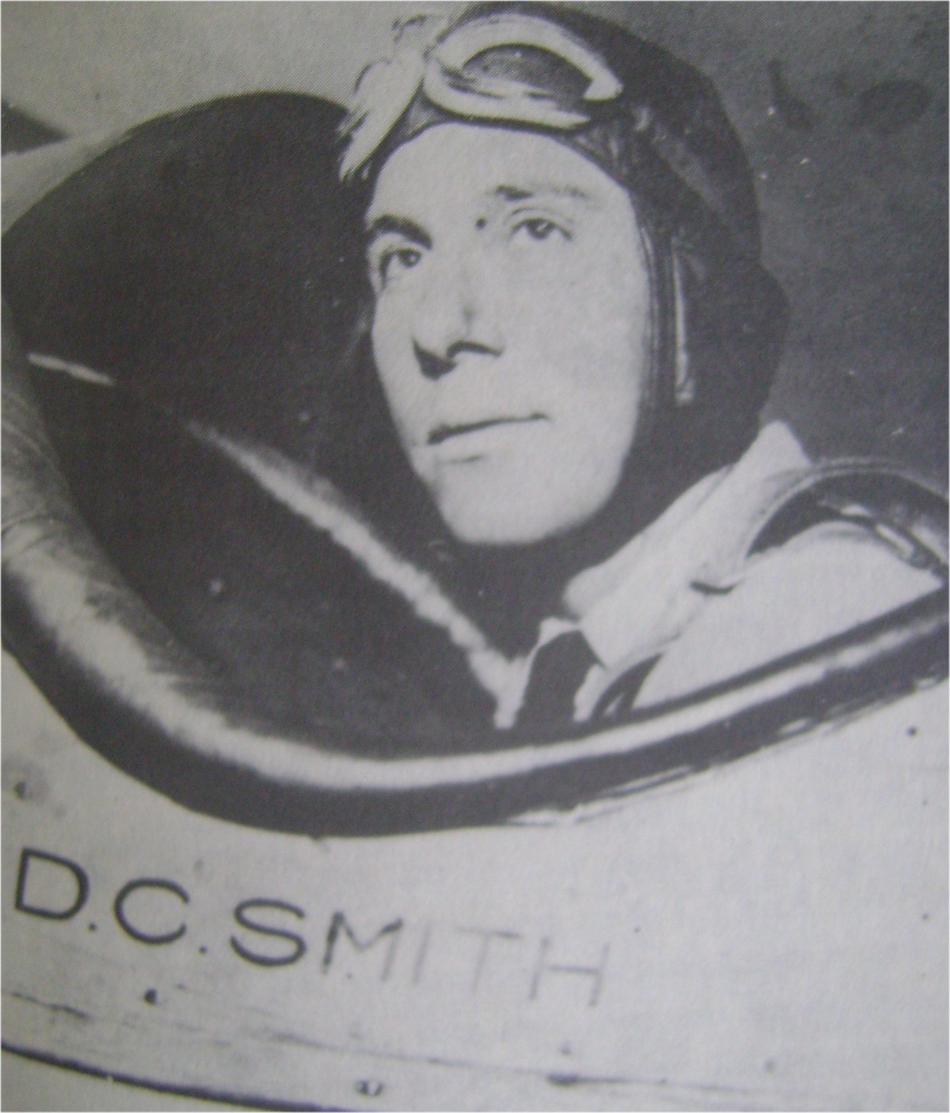 D C Smith in plane